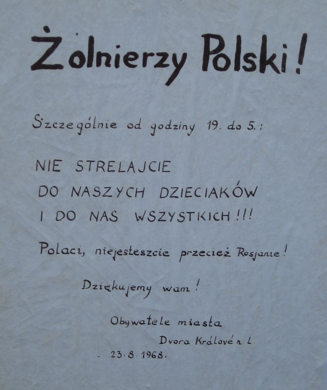 40th anniversary of the invasion by Warsaw Pact troops. Prague - a poster at the entrance to the National Museum. "Polish soldiers, especially from hours 19 to 5: Do not shoot at our kids and us all!"